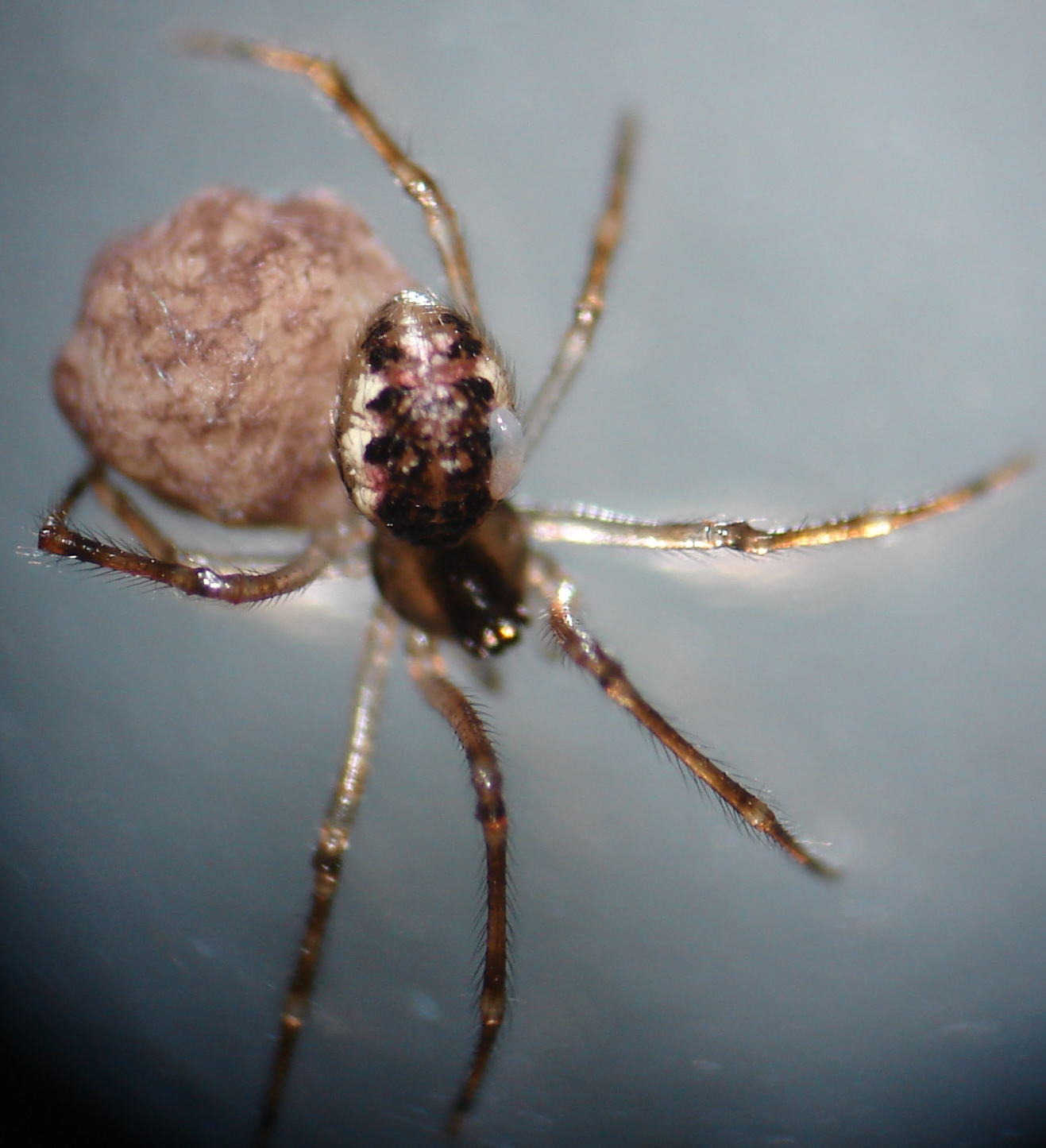 Photo of pinkish female Rugathodes sexpunctatus, carrying egg case, with larva of parasitic wasp on abdomen